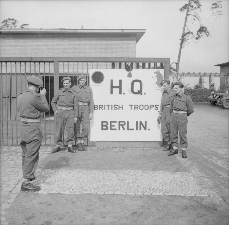 The British Army Film and Photographic Unit 1941 - 1947 Lance Corporal J War of the Army Film and Photographic Unit takes a souvenir snapshot of AFPU drivers at British Army Headquarters in Berlin, 3 June 1945. The drivers are (left to right): Driver Austin, Driver A Stocking, Driver J Bell, Driver R Castle.